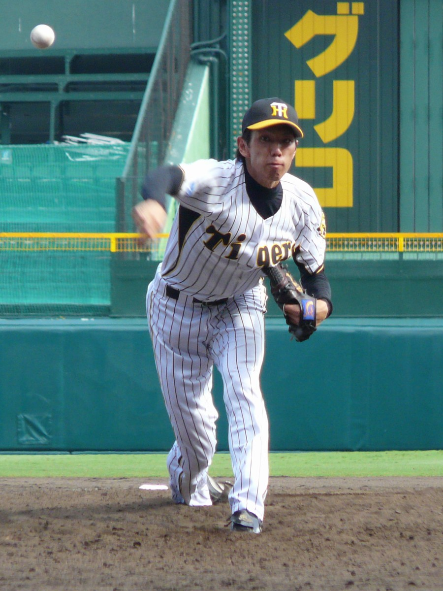 Hanshin Tigers/Yusuke Kuroda